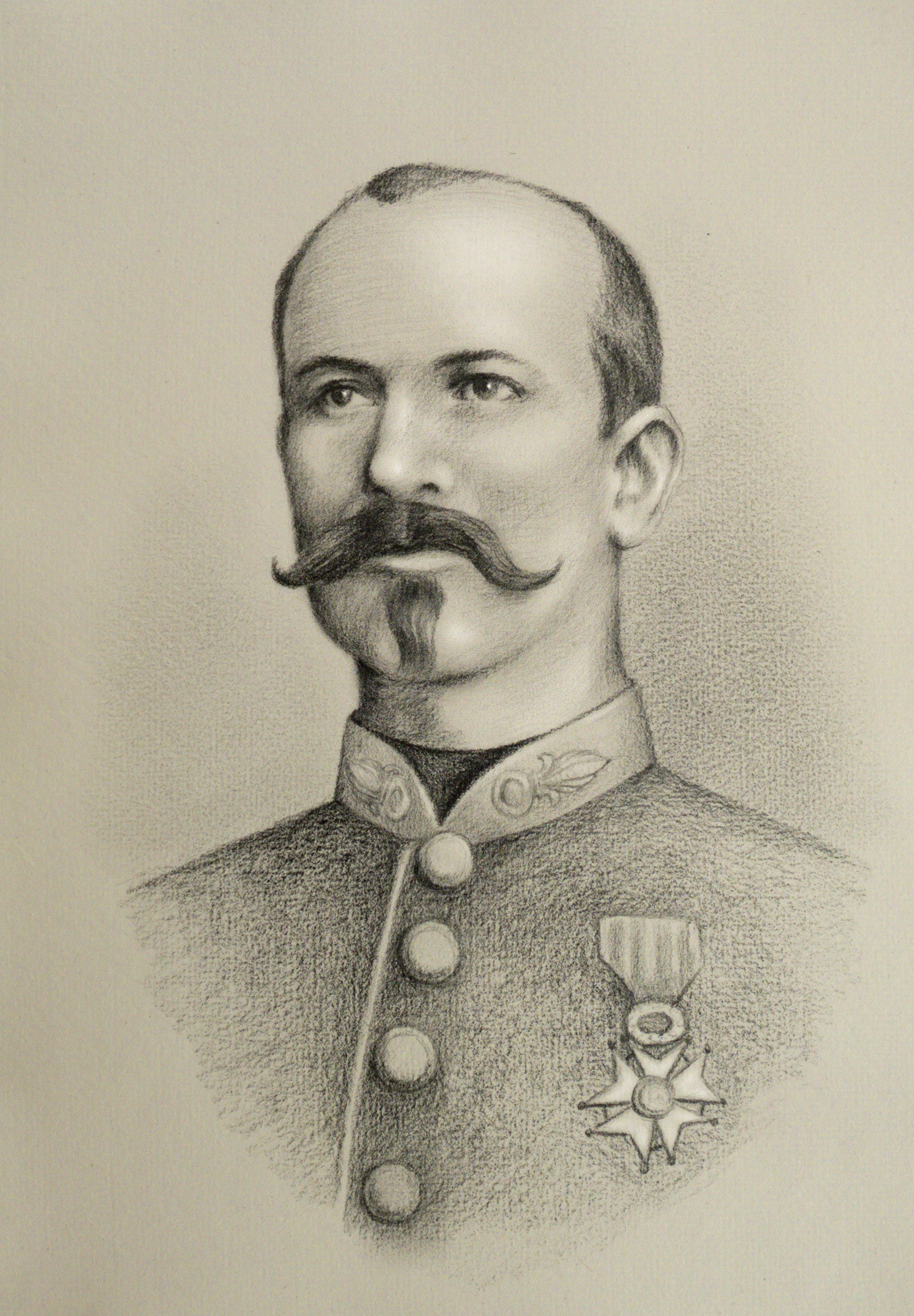 Capitaine Jean Danjou from battle of Camerone